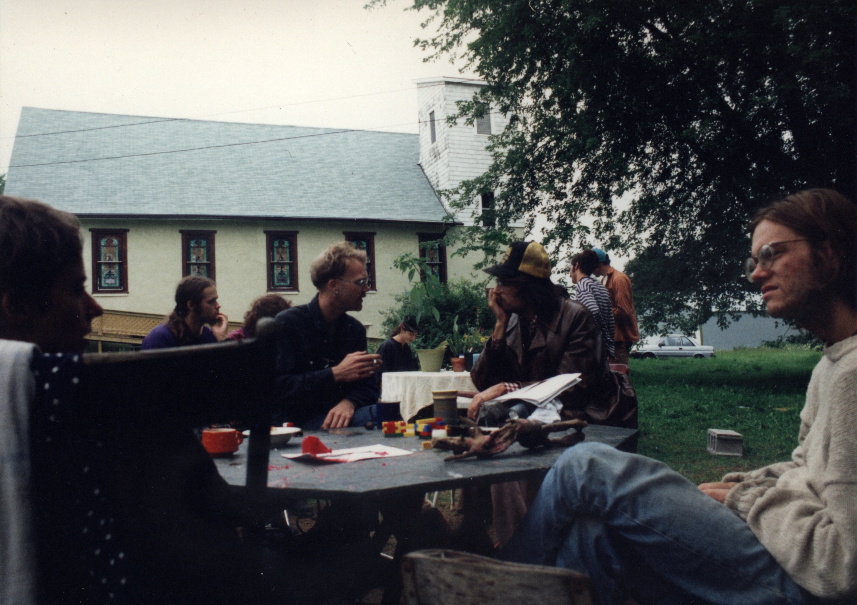 Taken in West Lima, Wisconsin in the back yard of the P.O. Brad Will is on the right of the photograph.